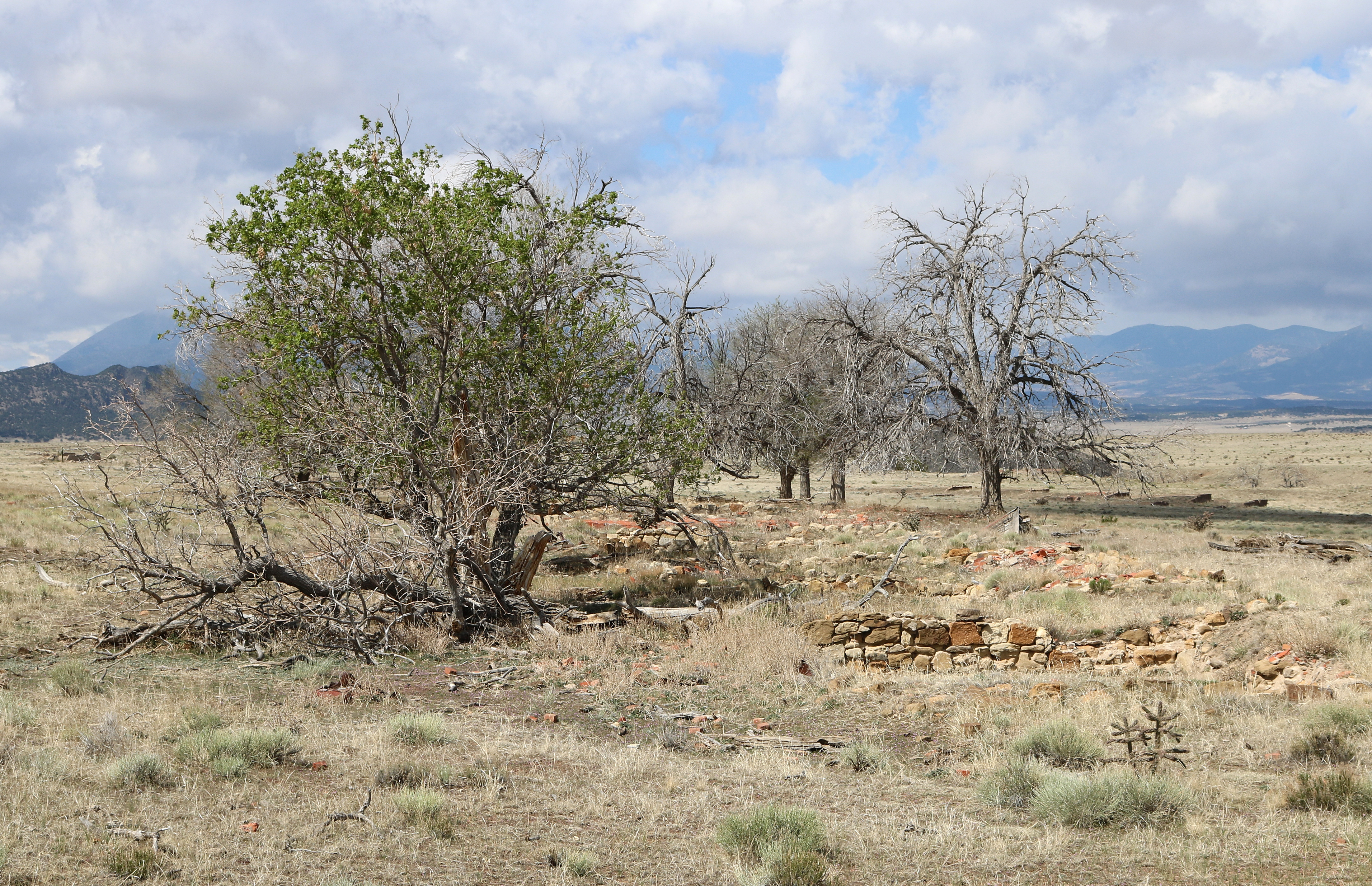 The ghost town of Tioga, Colorado, in Huerfano County. No standing structures remain in the town, just the remains of some foundations and some trees, most of which have died.